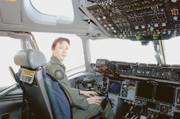 WGCDR Linda Corbould preparing for a training mission on the flight deck of a C-17 aircraft in Oklahoma in 2006. Photo by Michael Fletcher, USAF